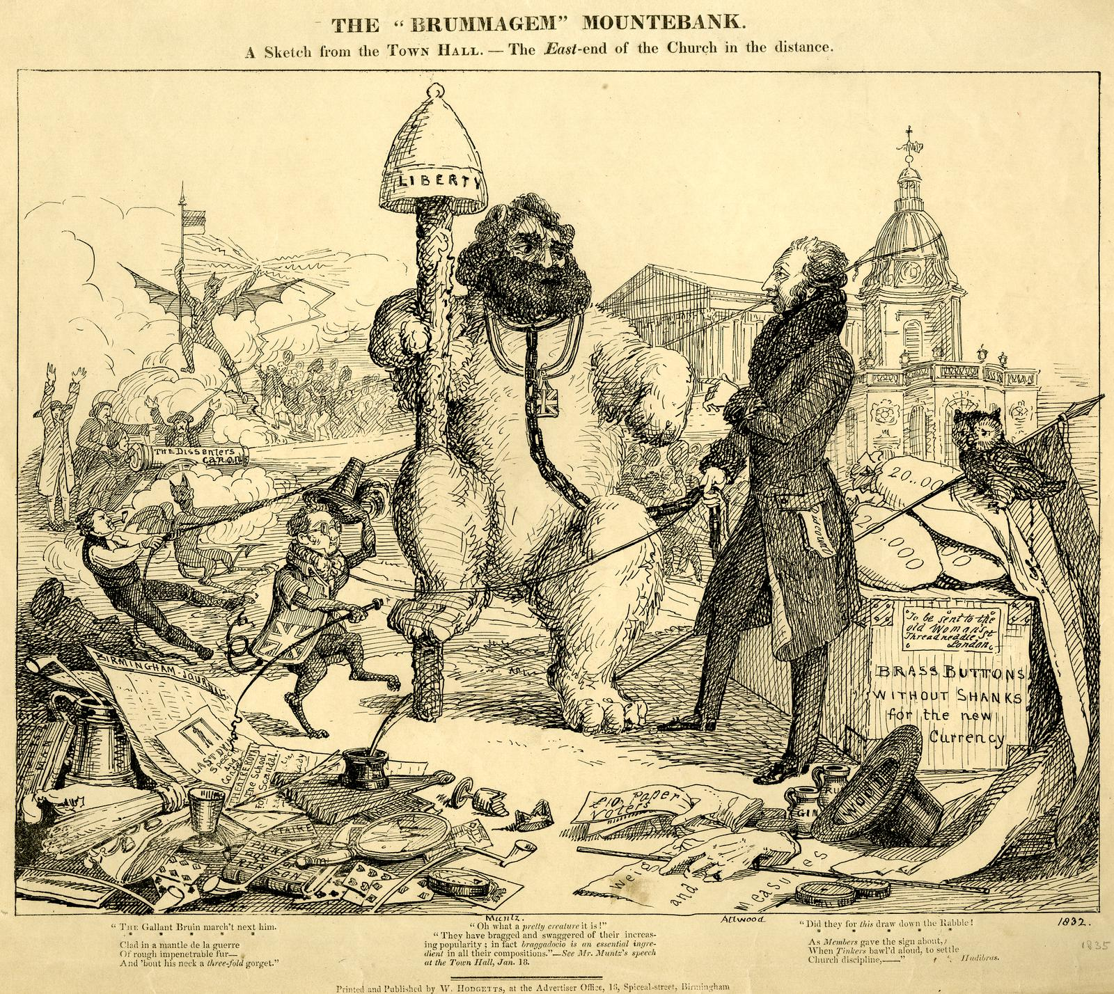 A bear tied to a pole with a cap of Liberty of the top (annotated 'Muntz' in pen) is held by a chain by a leader (labelled 'Attwood'); to the left devils dance around 'The Dissenters Canon', and the right an owl sits on a case of 'Brass buttons without shanks for the new currency'. 1835 Lithograph and letterpress